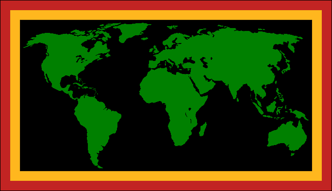 Icon to represent The Amazing Race pit stops.